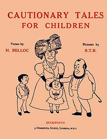 Cover of the first edition of Cautionary Tales for Children.